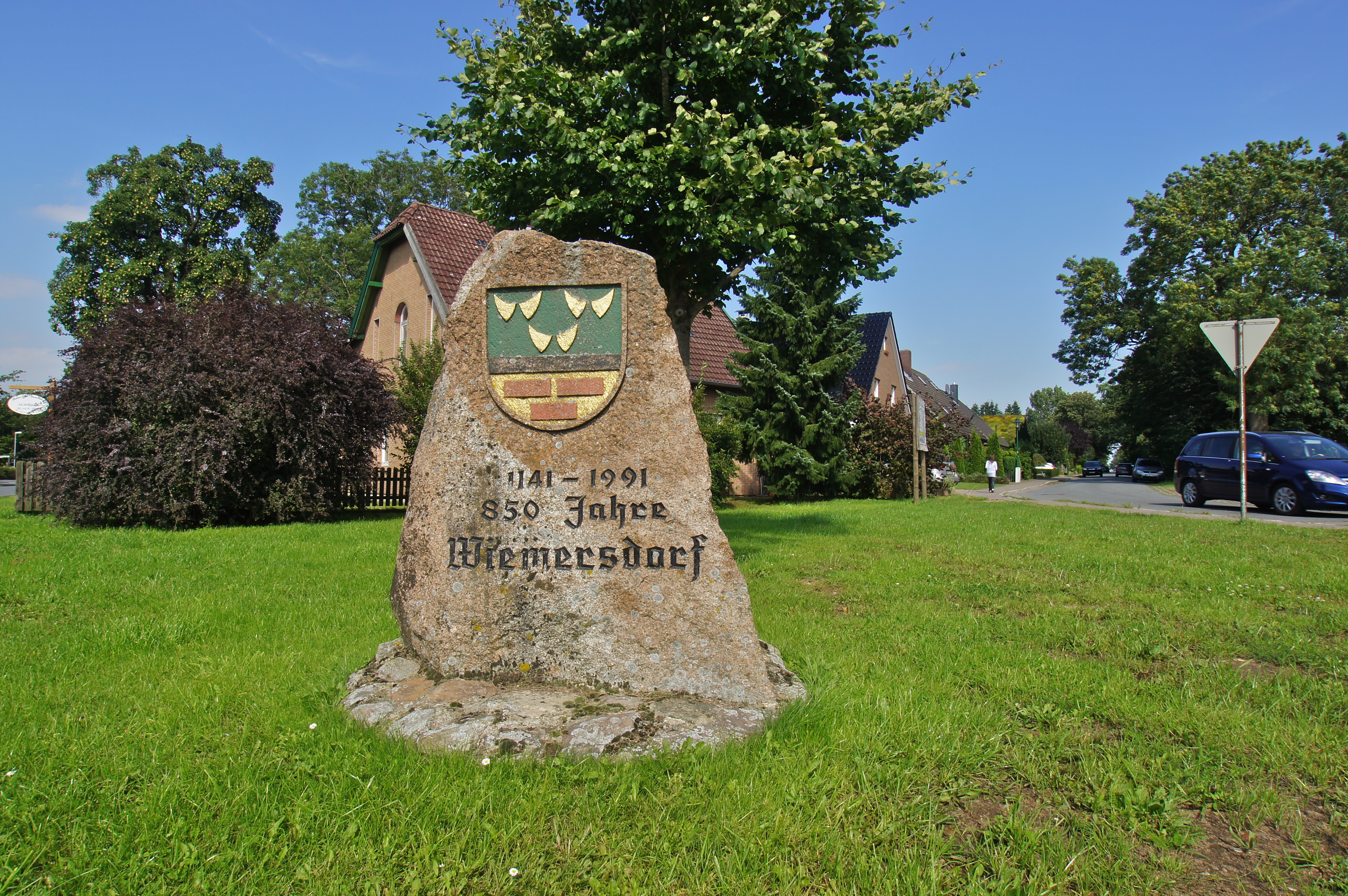 Wiemersdorf, Germany: Memorial 1141-1991 850 years